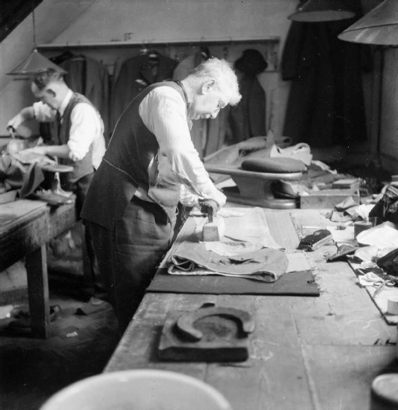 Savile Row- Tailoring at Henry Poole and Co., London, England, UK, 1944 A tailor uses his 'goose' (a heavy iron) to press the seams of a pair of trousers in the workroom of Henry Poole and Co. on Savile Row in London.